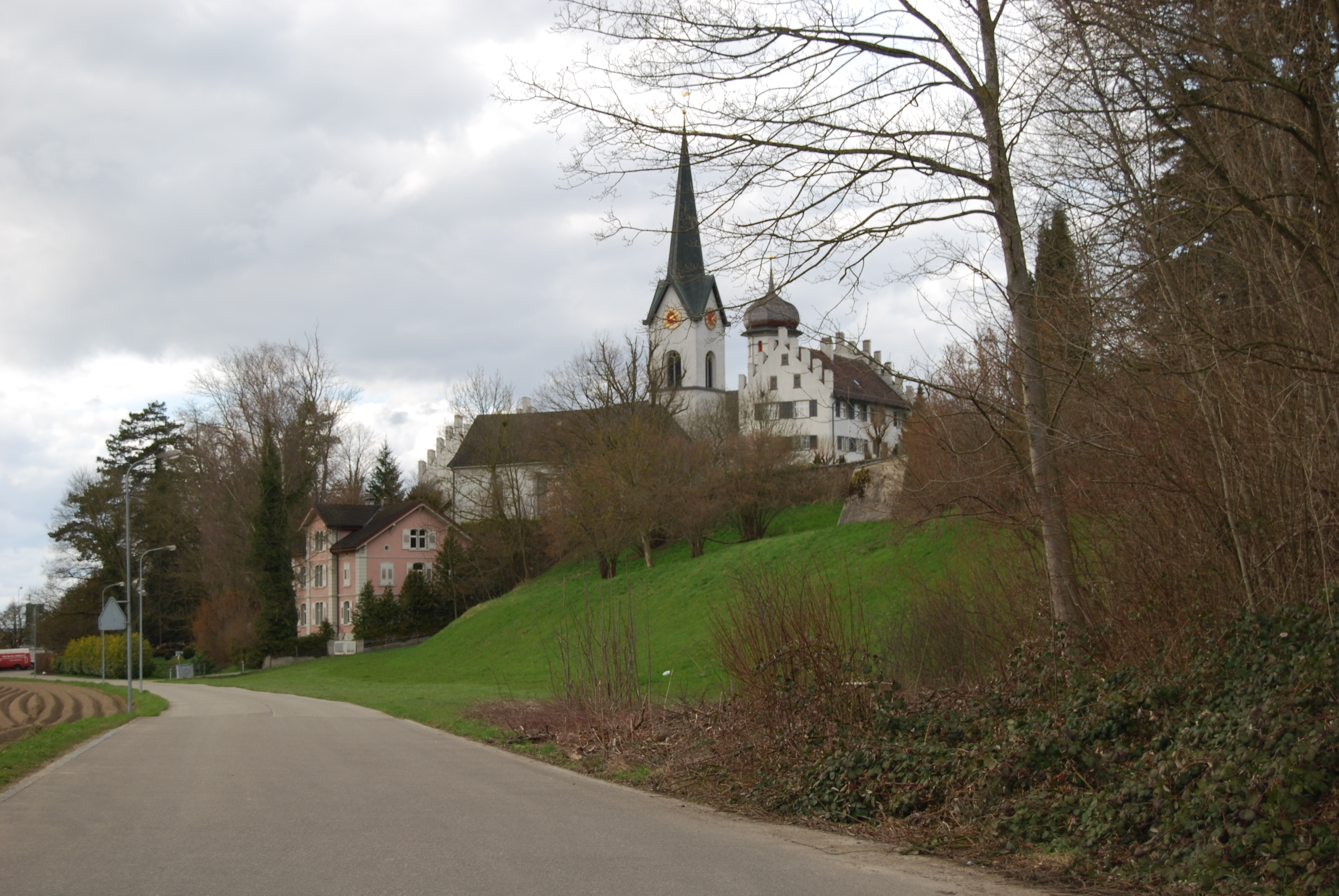 Protestant church and Castle Bürglen, canton of Thurgovia, Switzerland